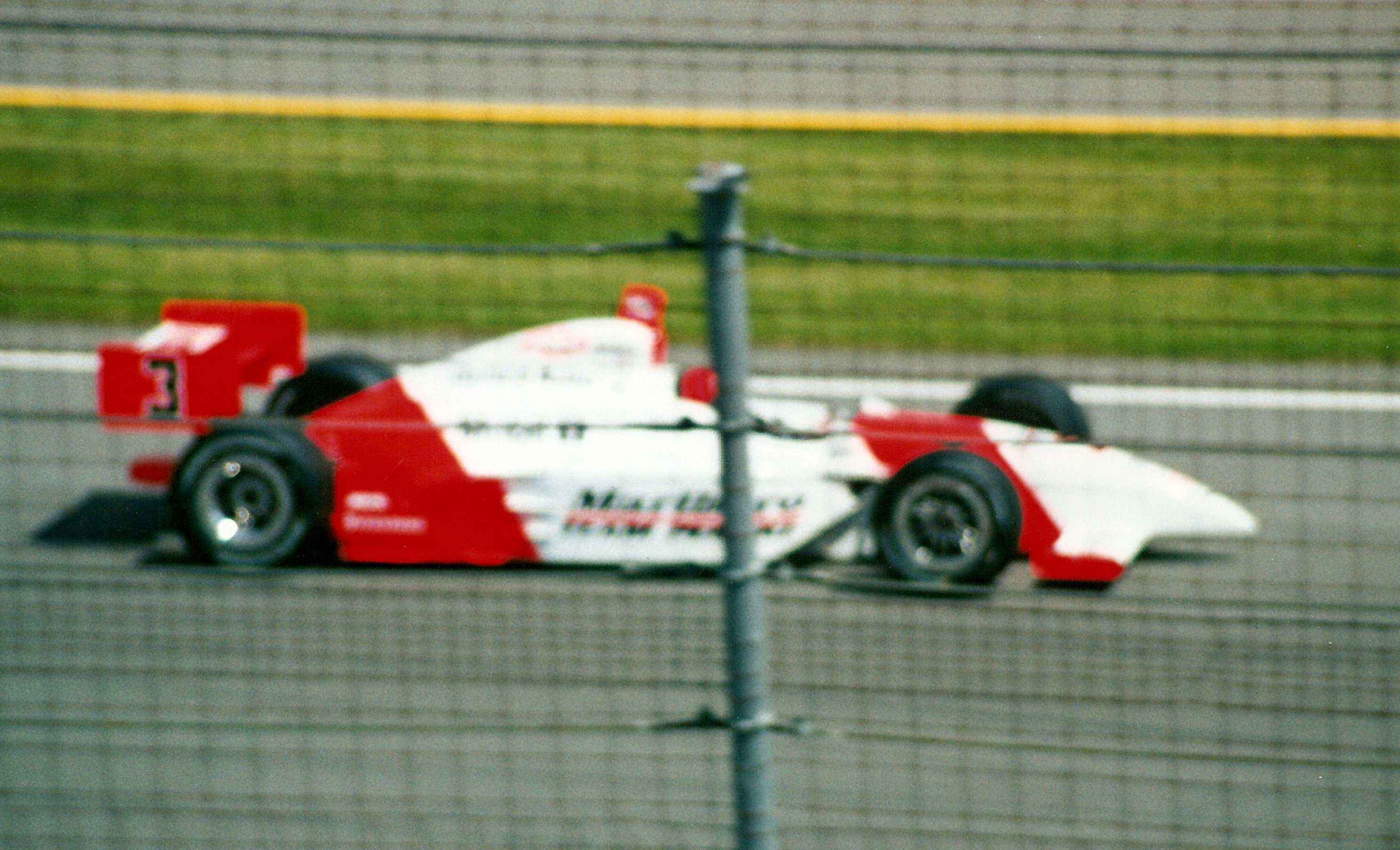 Helio Castroneves during the 2002 Indianapolis 500